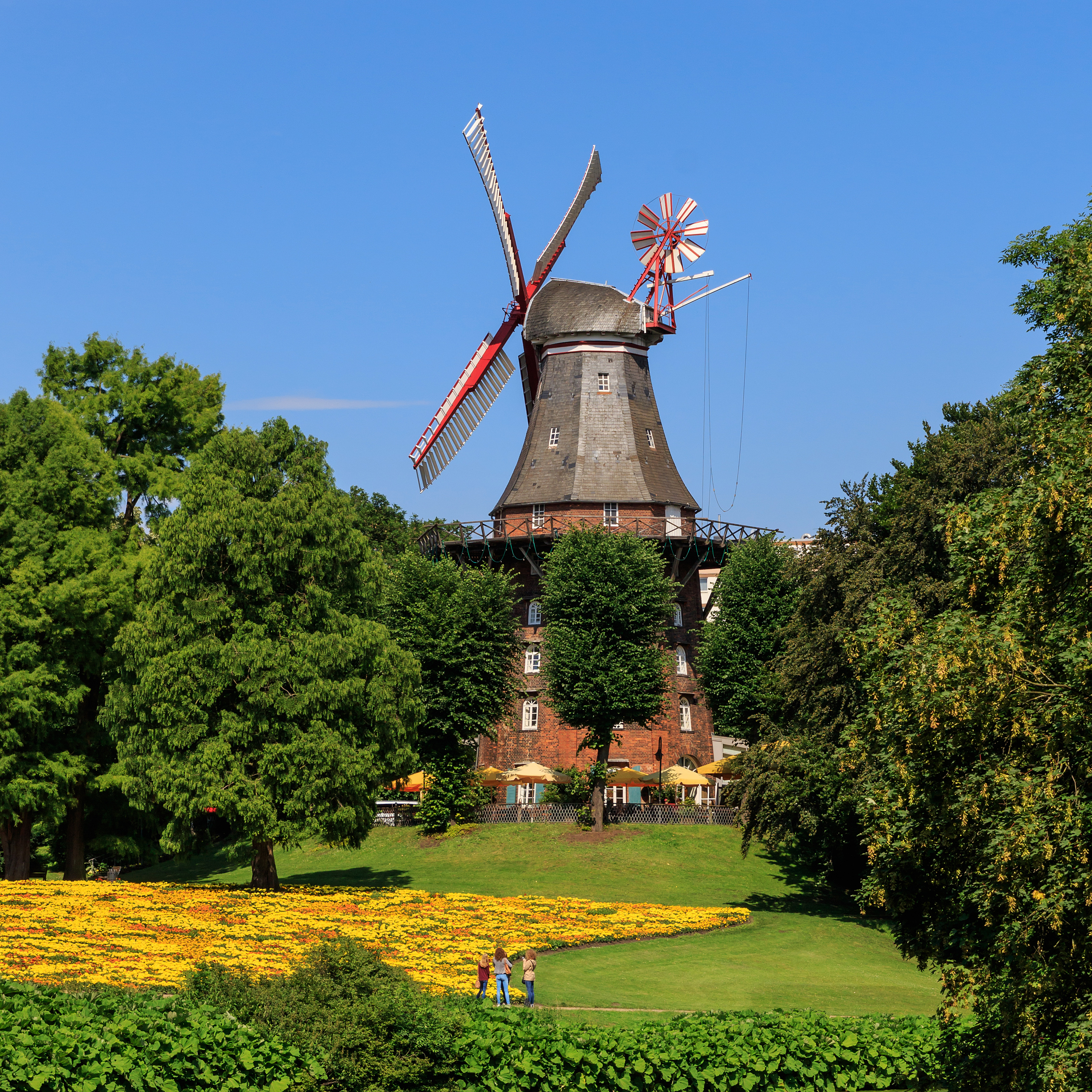 The windmill at City wall in Bremen, Germany